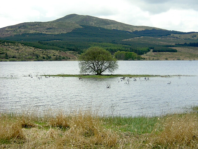 Small Island in Carron Valley Reservoir. Small island in Carron Valley Reservoir with Meikle Bin in the background.